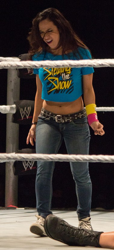 AJ Lee during a WWE house show on February 2, 2013 in Montgomery, Alabama.